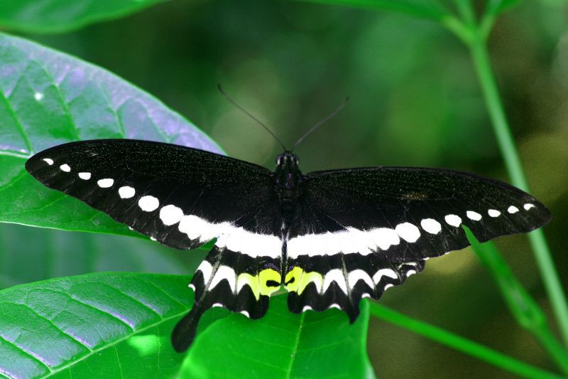 Malabar Banded Swallowtail Papilio liomedon (Family Papilionidae, Lepidoptera).